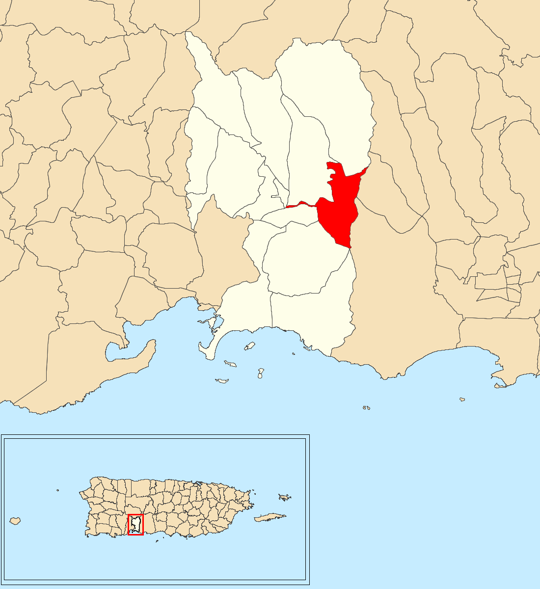 Tallaboa Alta, Peñuelas, Puerto Rico locator map